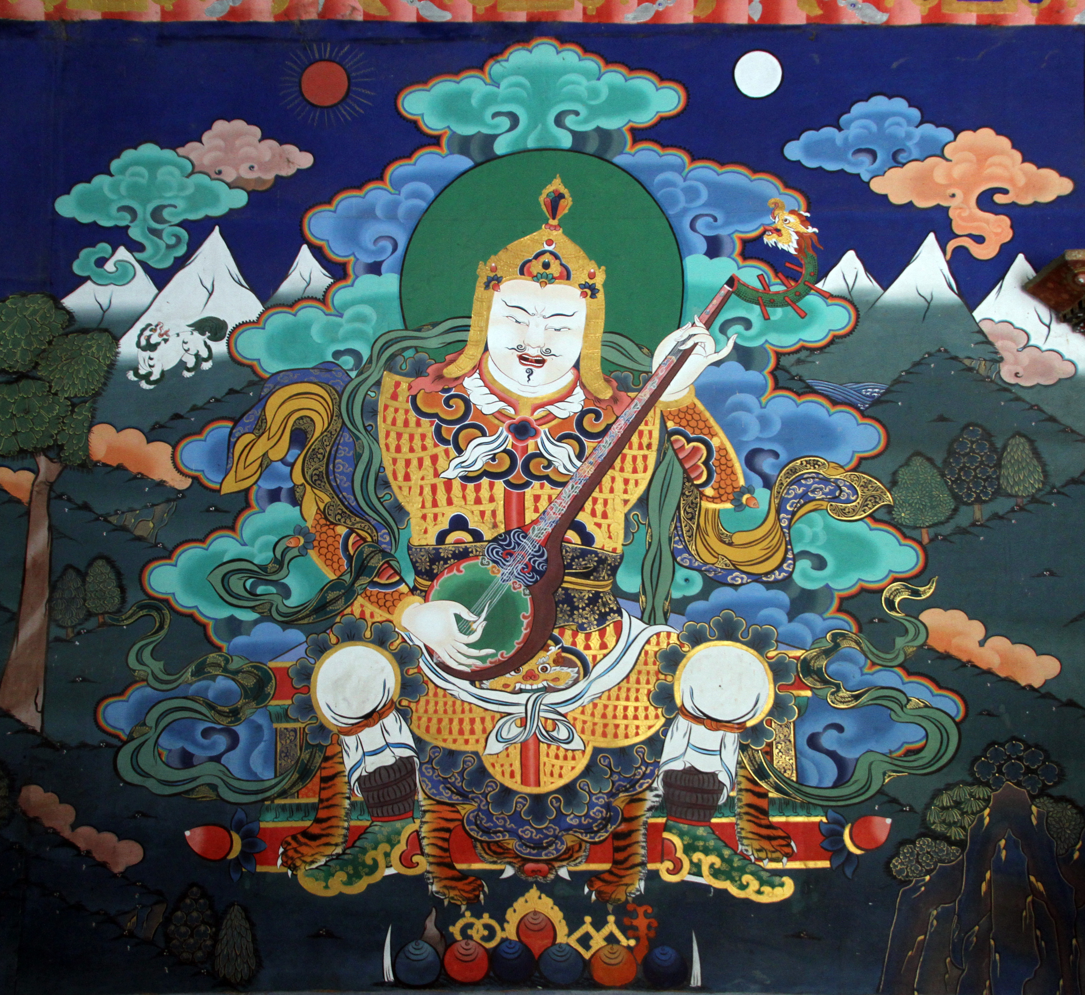 Painting in the Dzong of Paro, Bhutan.